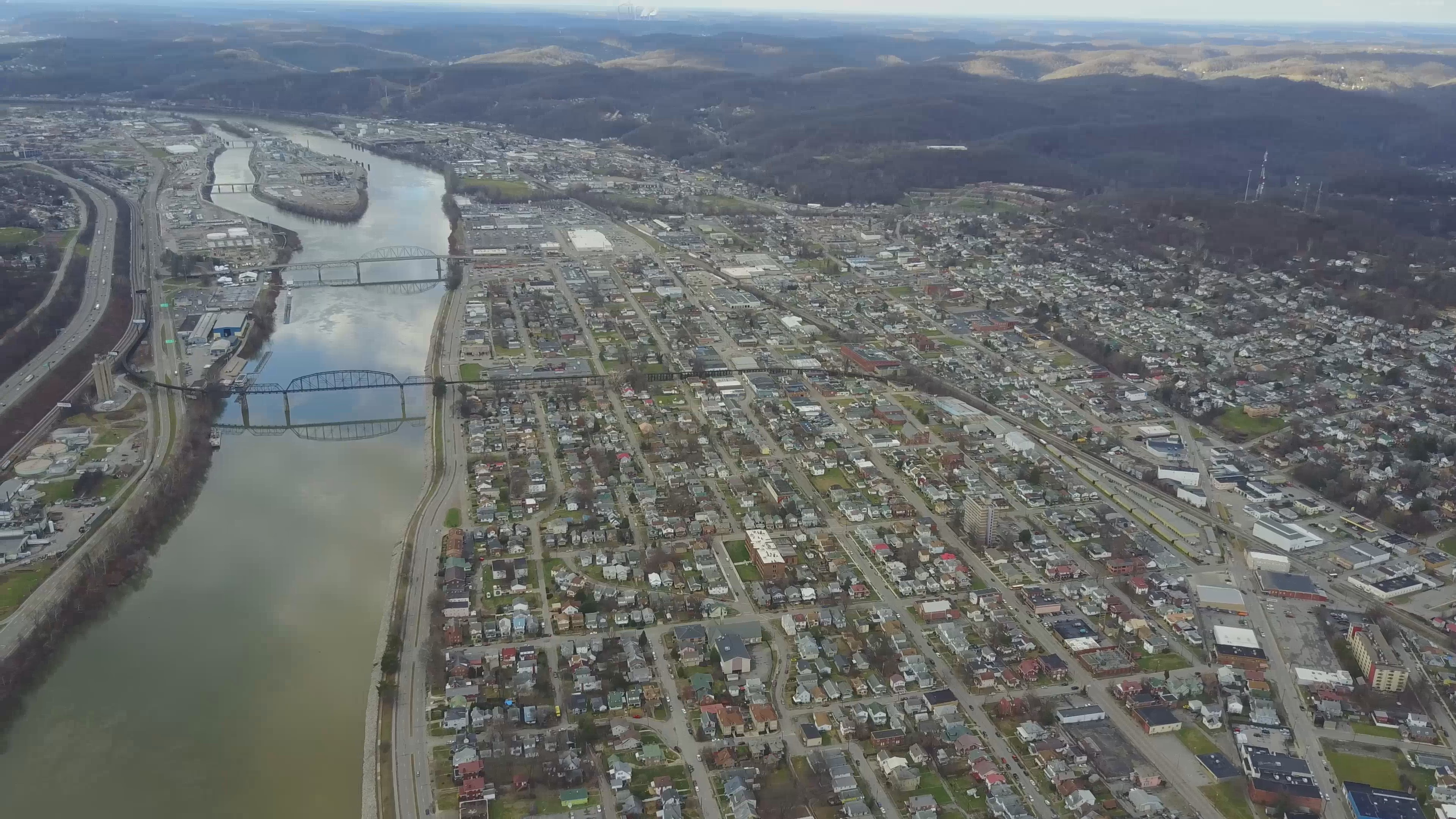 From way up, trust me its within the legal limits